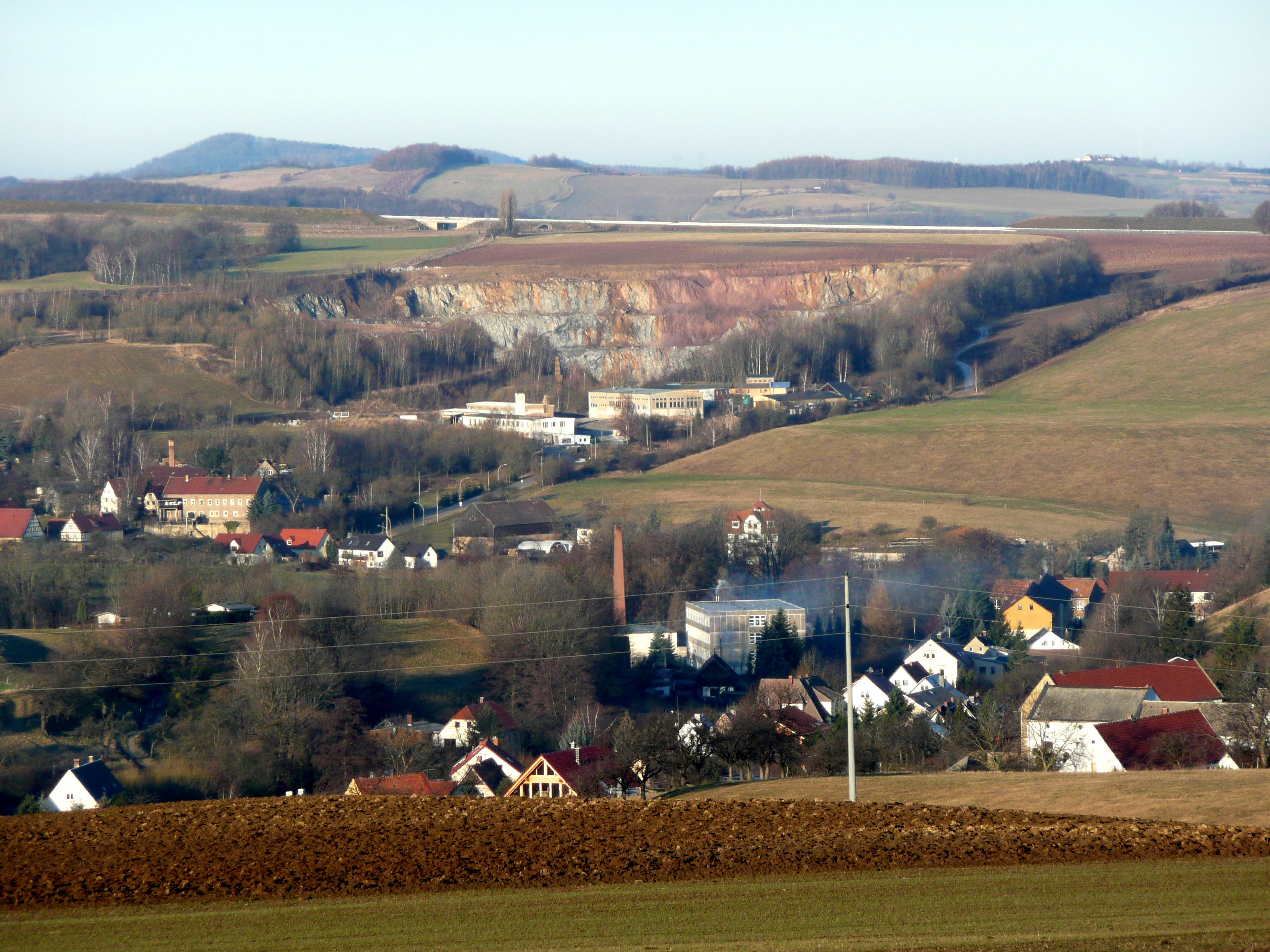 This image shows Borna-Gersdorf, a small village (Municipality subdivision of Bahretal) near Pirna in Saxony.